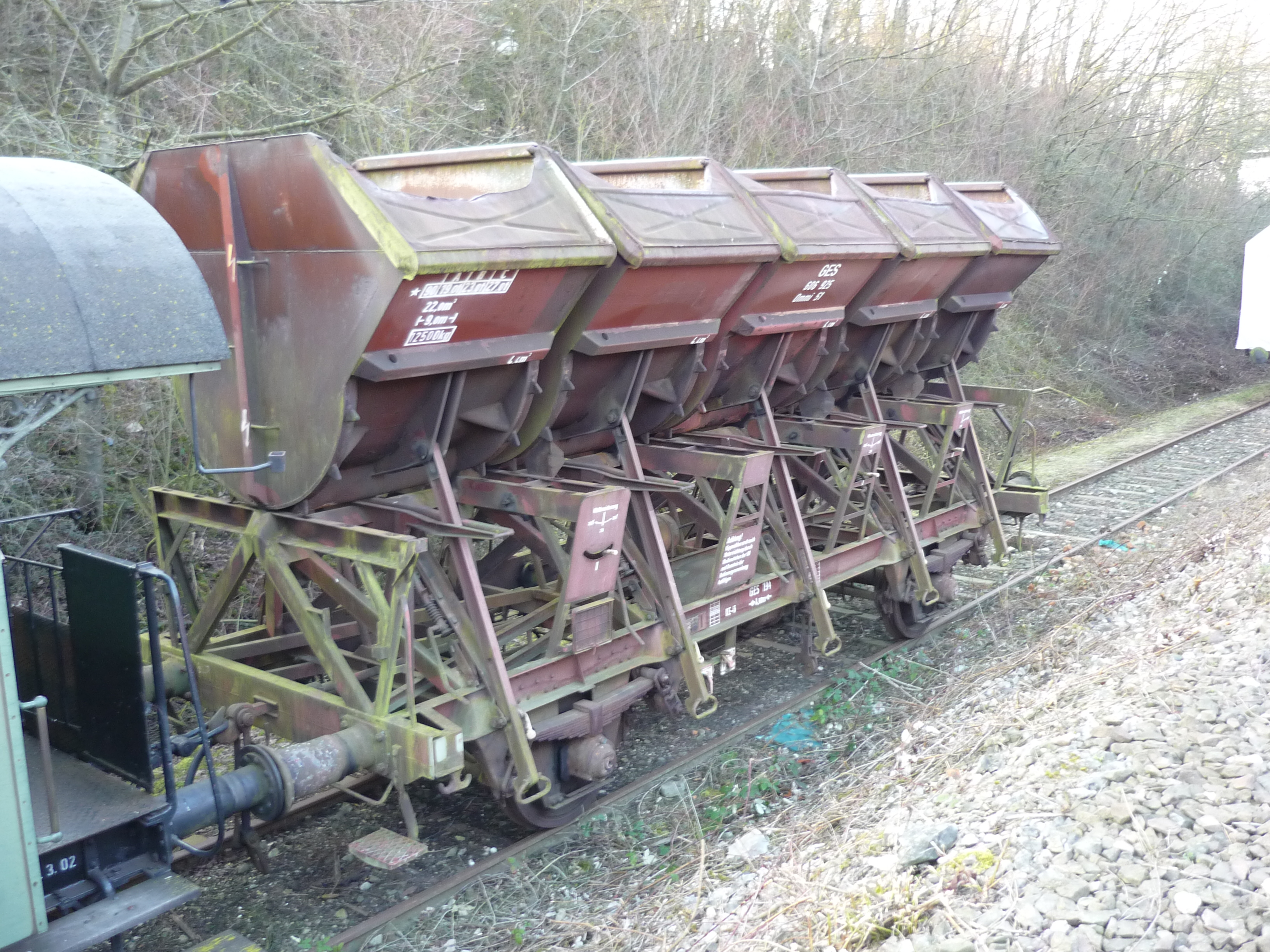 Ommi51 606925